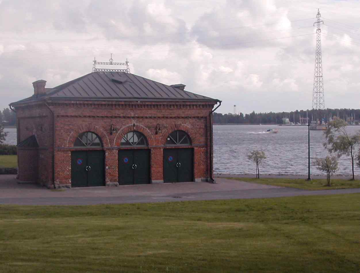 Part of Vaasa universities campus area. Behind the building you can see the northern city bay.